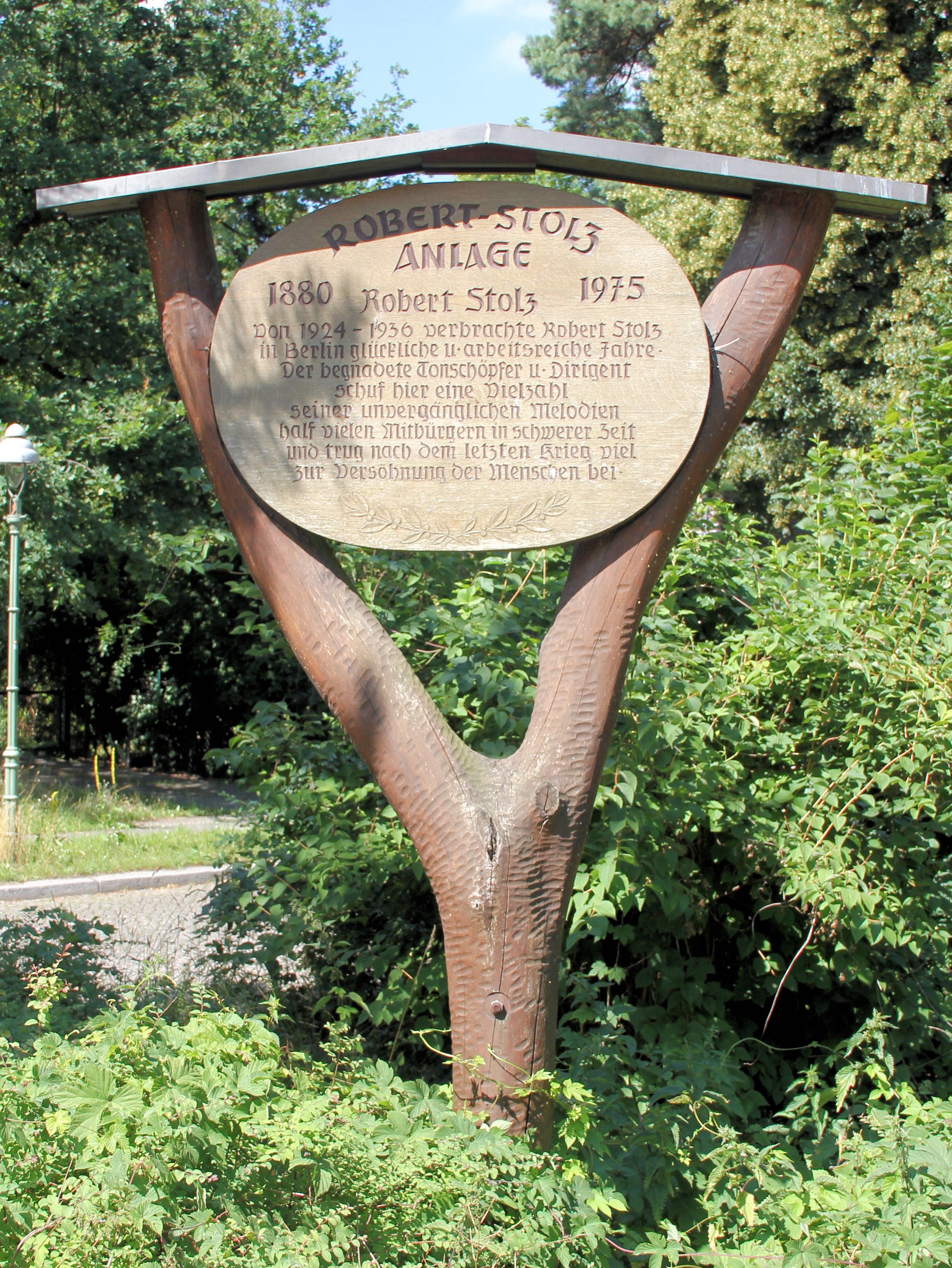 Memorial plaque, Robert Stolz, Waldmeisterstraße 2, Berlin-Grunewald, Germany Koordinate:52°28′27″N 13°16′42″E / 52.47417°N 13.27833°E